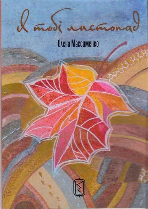 Друга поетична збірка Олени Максименко